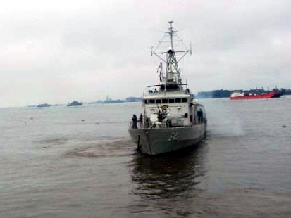 KRI Badau of the Indonesian Navy